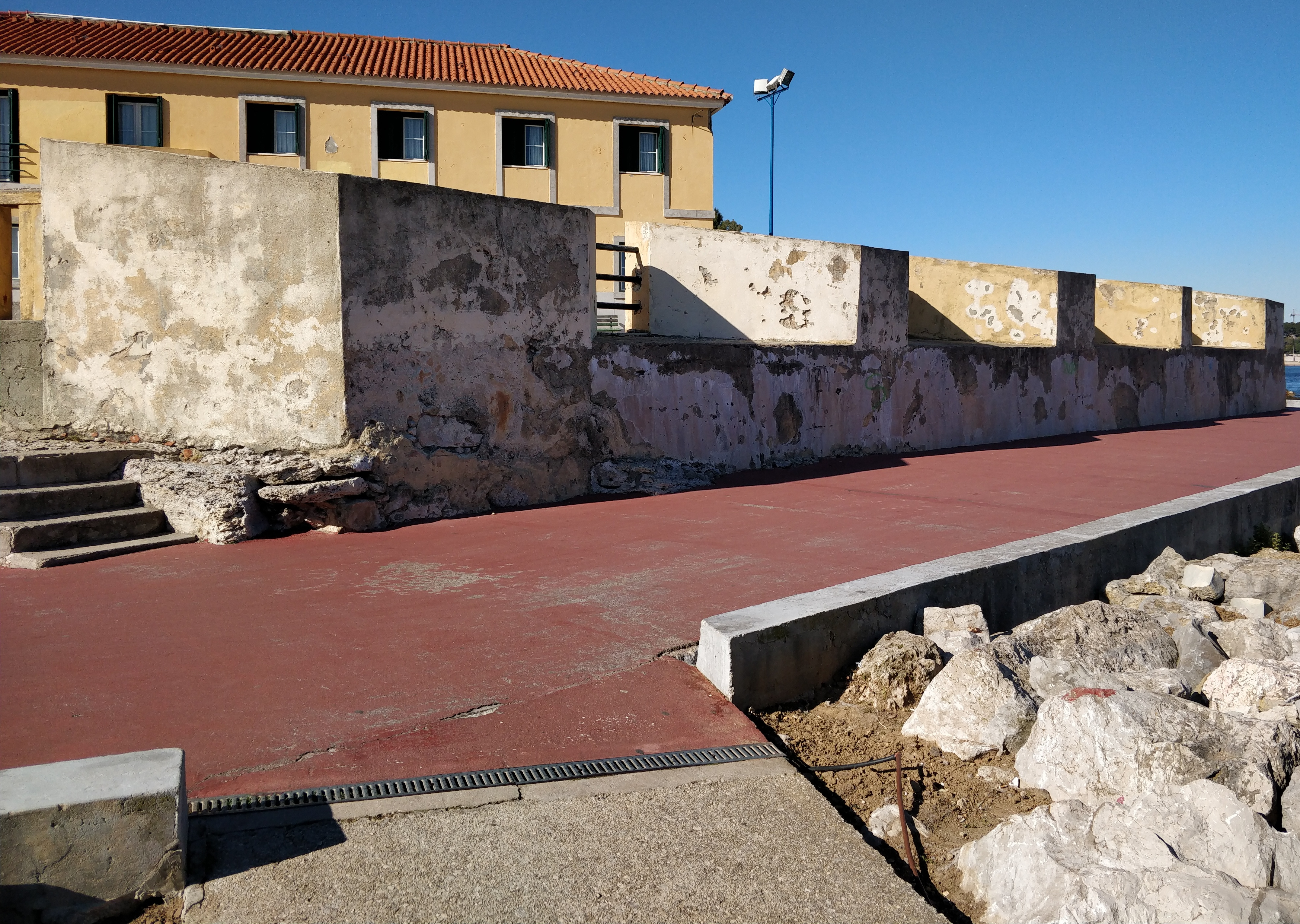 Remains of the Fort of Nossa Senhora das Mercês de Catalazete in Oeiras, close to Lisbon, Portugal. The fort now functions as a youth hostel.